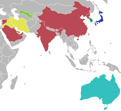 The map of the competition